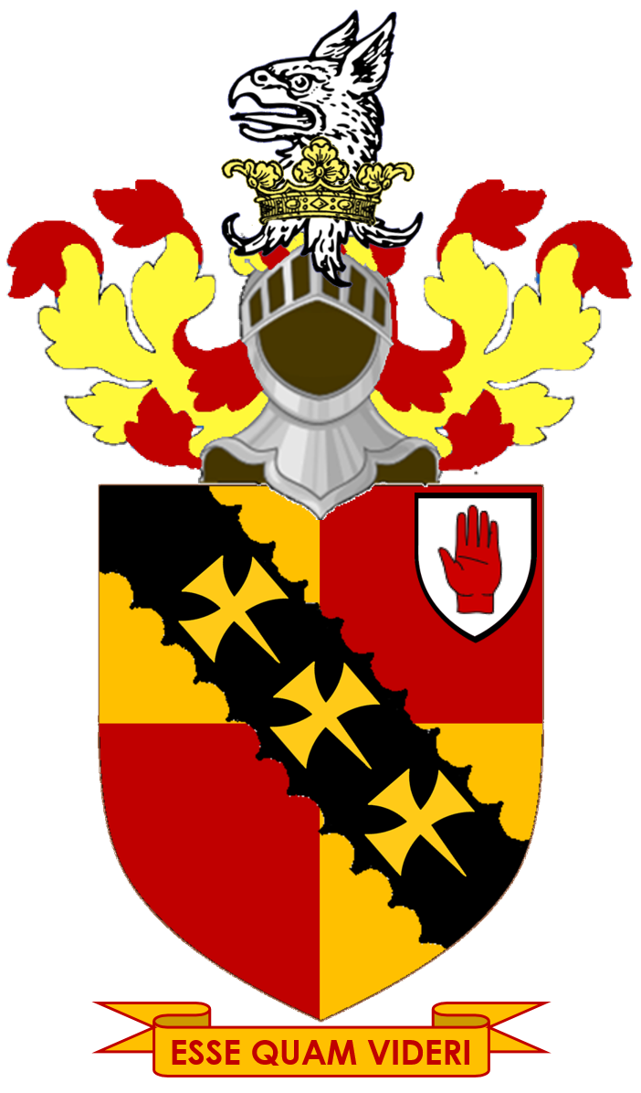 The armorial achievement of the Hanham baronet of Wimborne